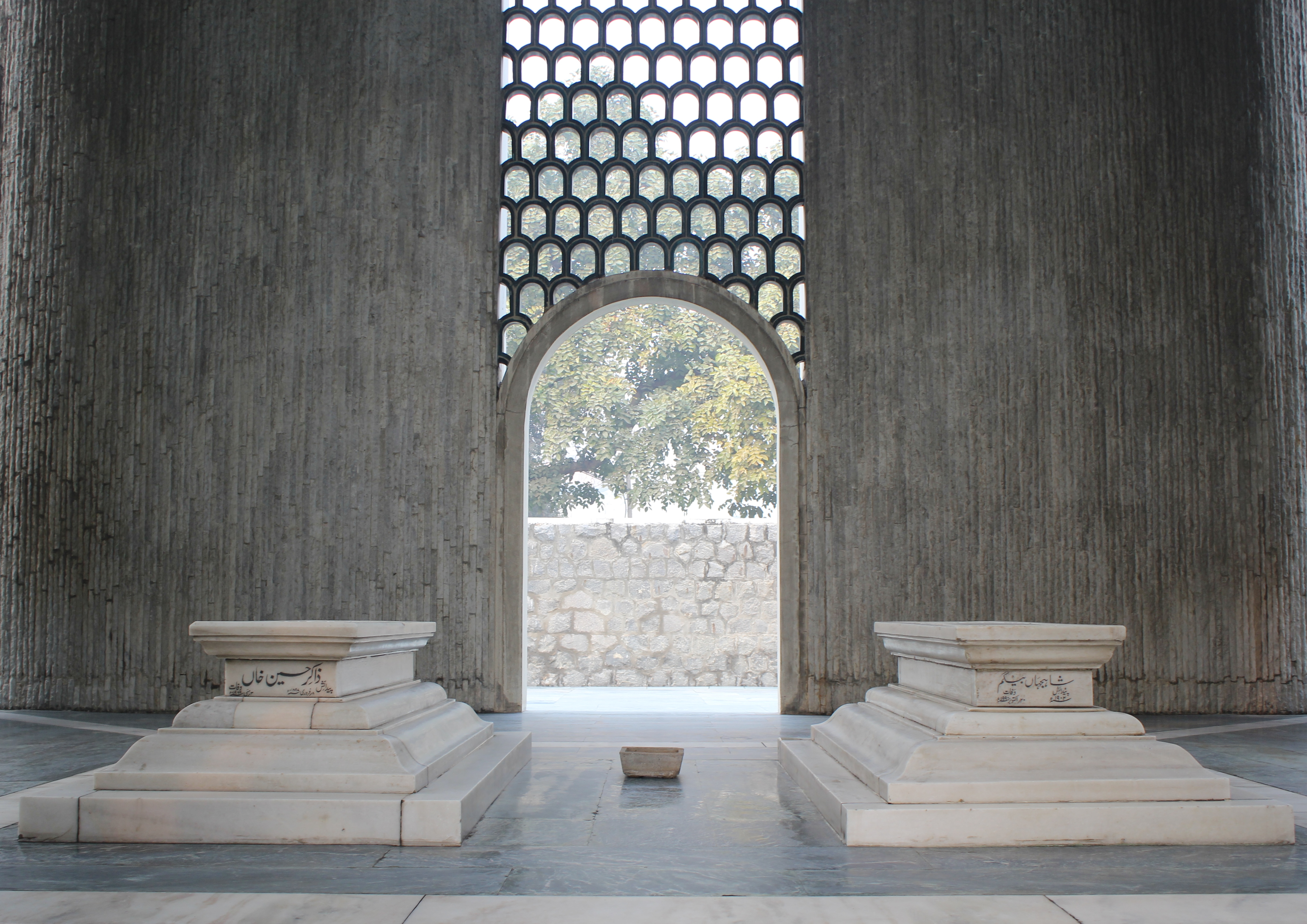 Interior view of the zakir husain mausoleum